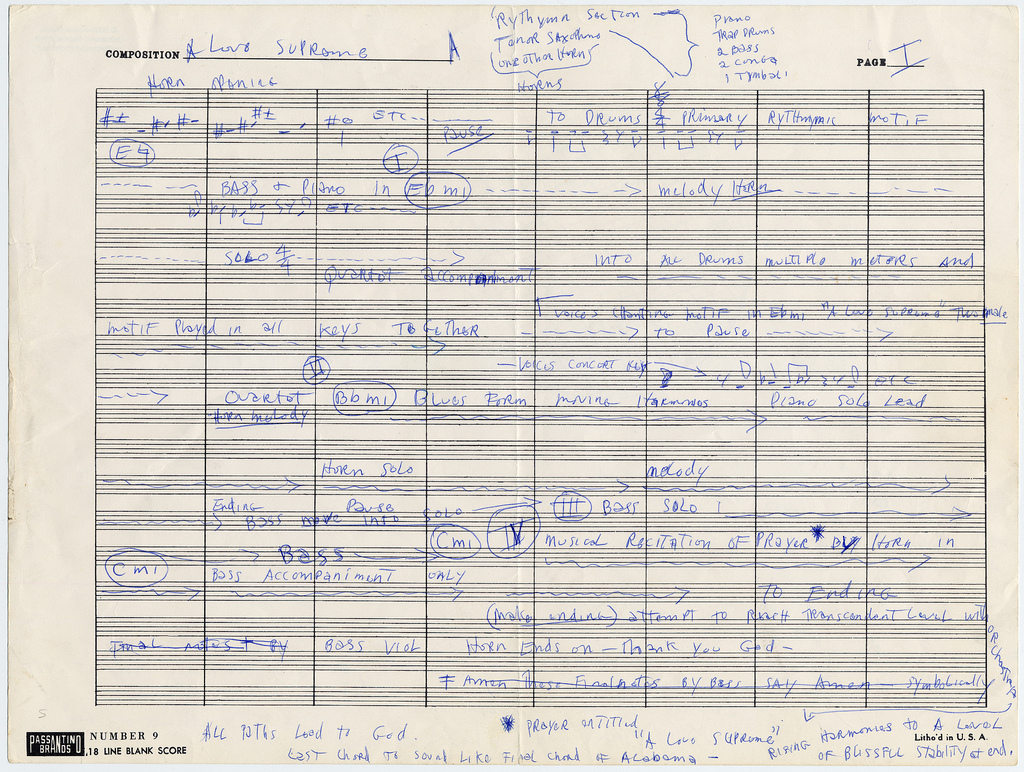 Handwritten sheet music for John Coltrane's religious suite A Love Supreme.